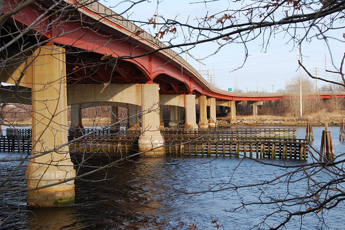 Henderson Bridge over Seekonk River between Providence and East Providence, Rhode Island